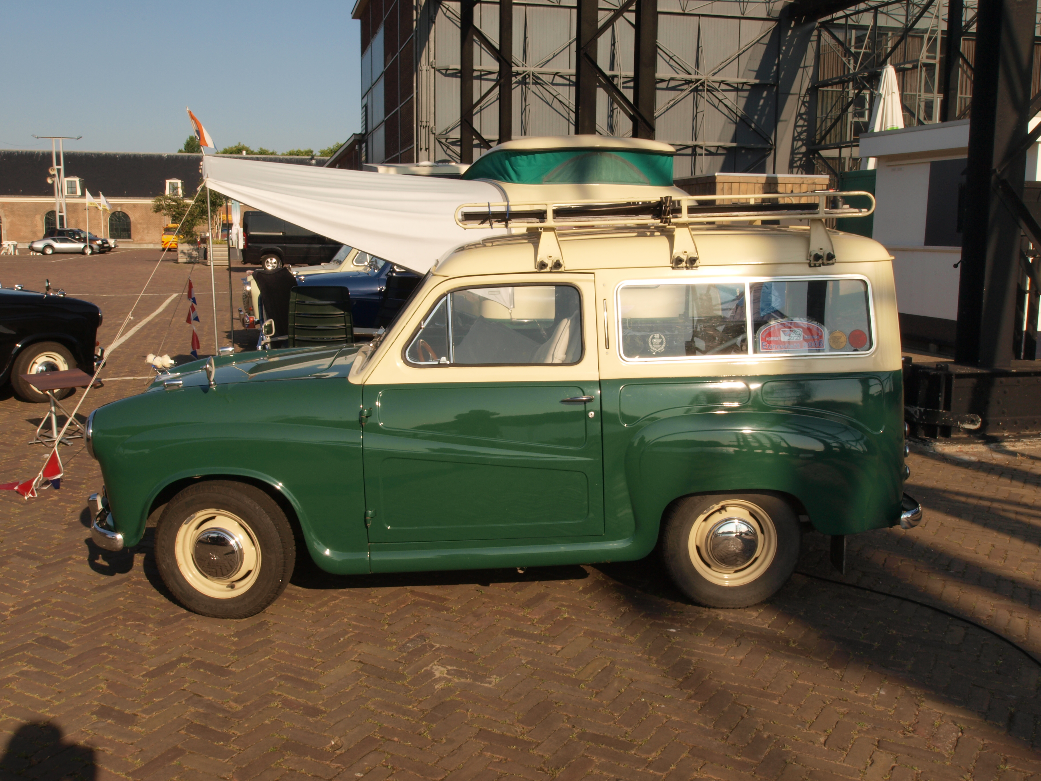 Photographed at Den Helder, The Netherlands. OLYMPUS DIGITAL CAMERA